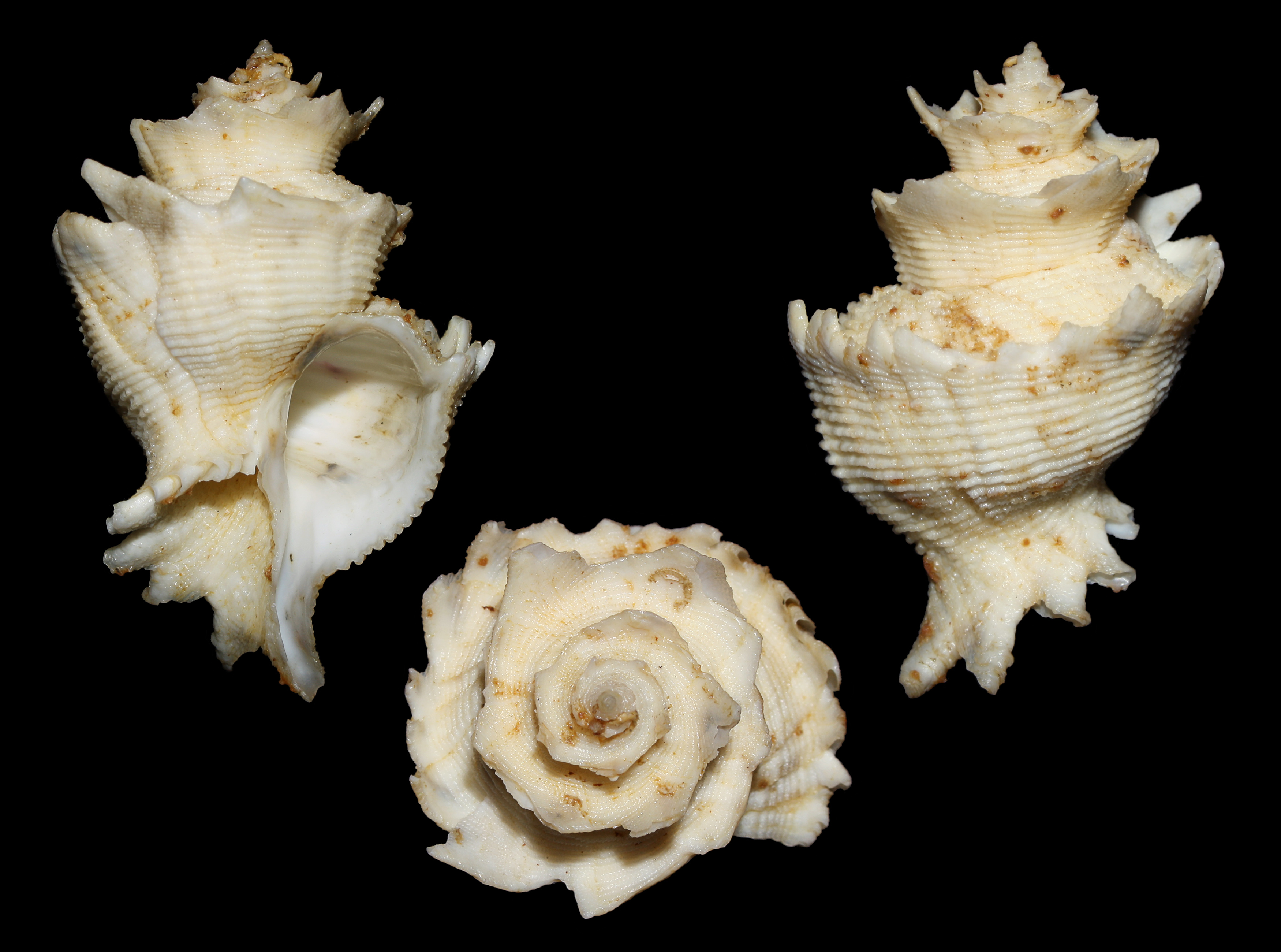 Babelomurex finchii Fulton, 1930. Also known as Latiaxis dunkeri Kuroda & Habe' 1961. Locality: Taiwan, caught around 1986. 52 mm.